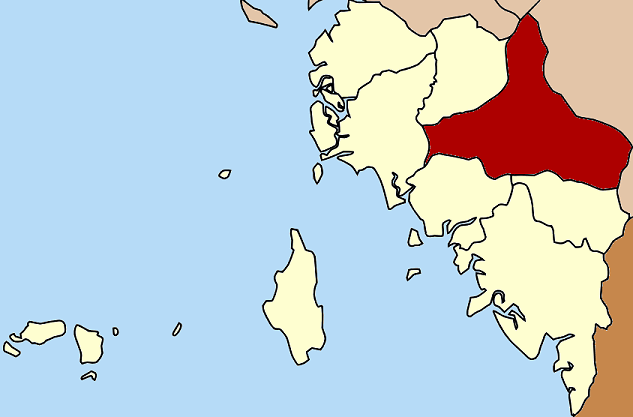 Map of Satun Province, Thailand, highlighting the district Khuan Kalong (อำเภอควนกาหลง)